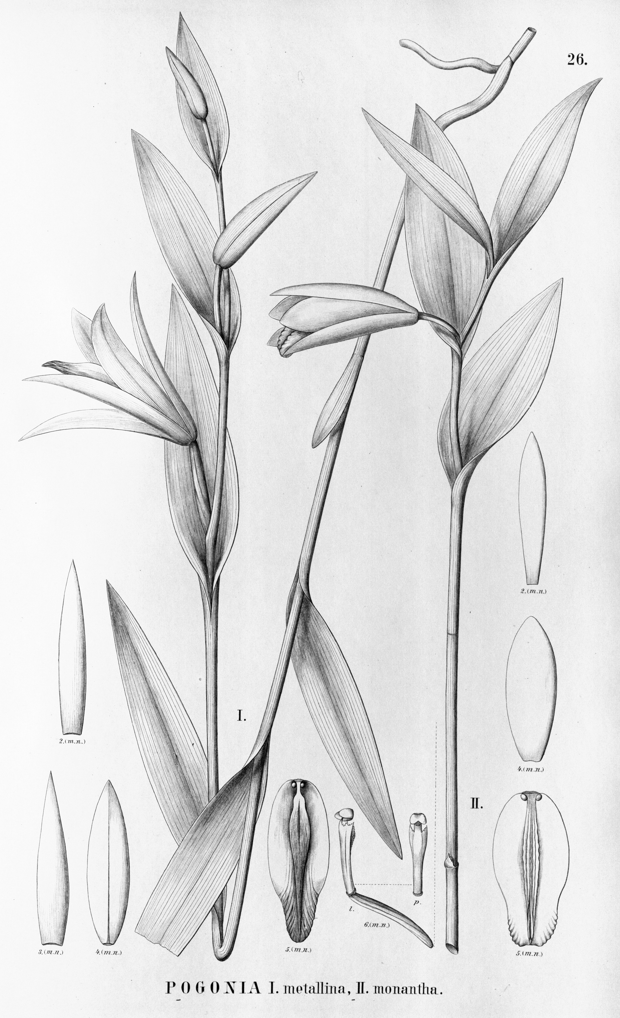 Illustration of : I. Cleistes metallina (as syn. Pogonia metallina) II. Cleistes monantha (as syn. Pogonia monantha)